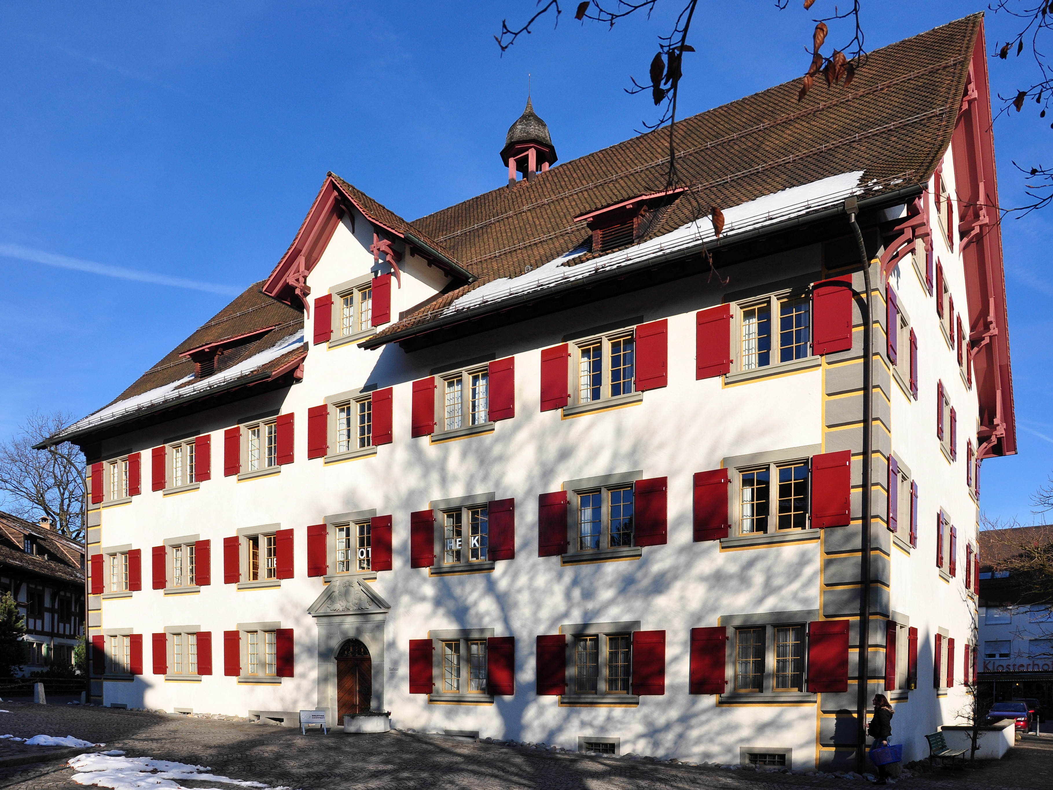 Rüti (Switzerland) : Former Rüti Abbey's Bailiff's house.